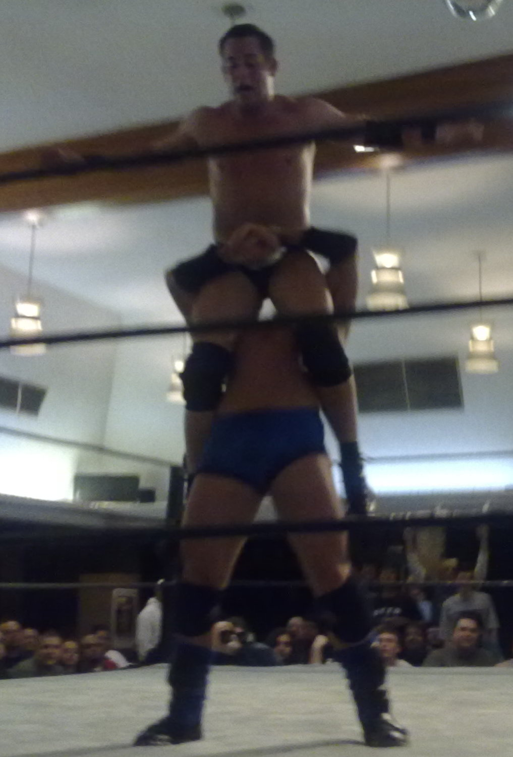 Professional wrestler Kenny Omega performing a Croyt's Wrath on Roderick Strong